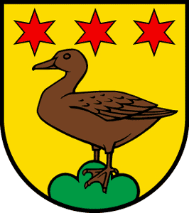 Coat of arms of Unterentfelden, Canton Aargau